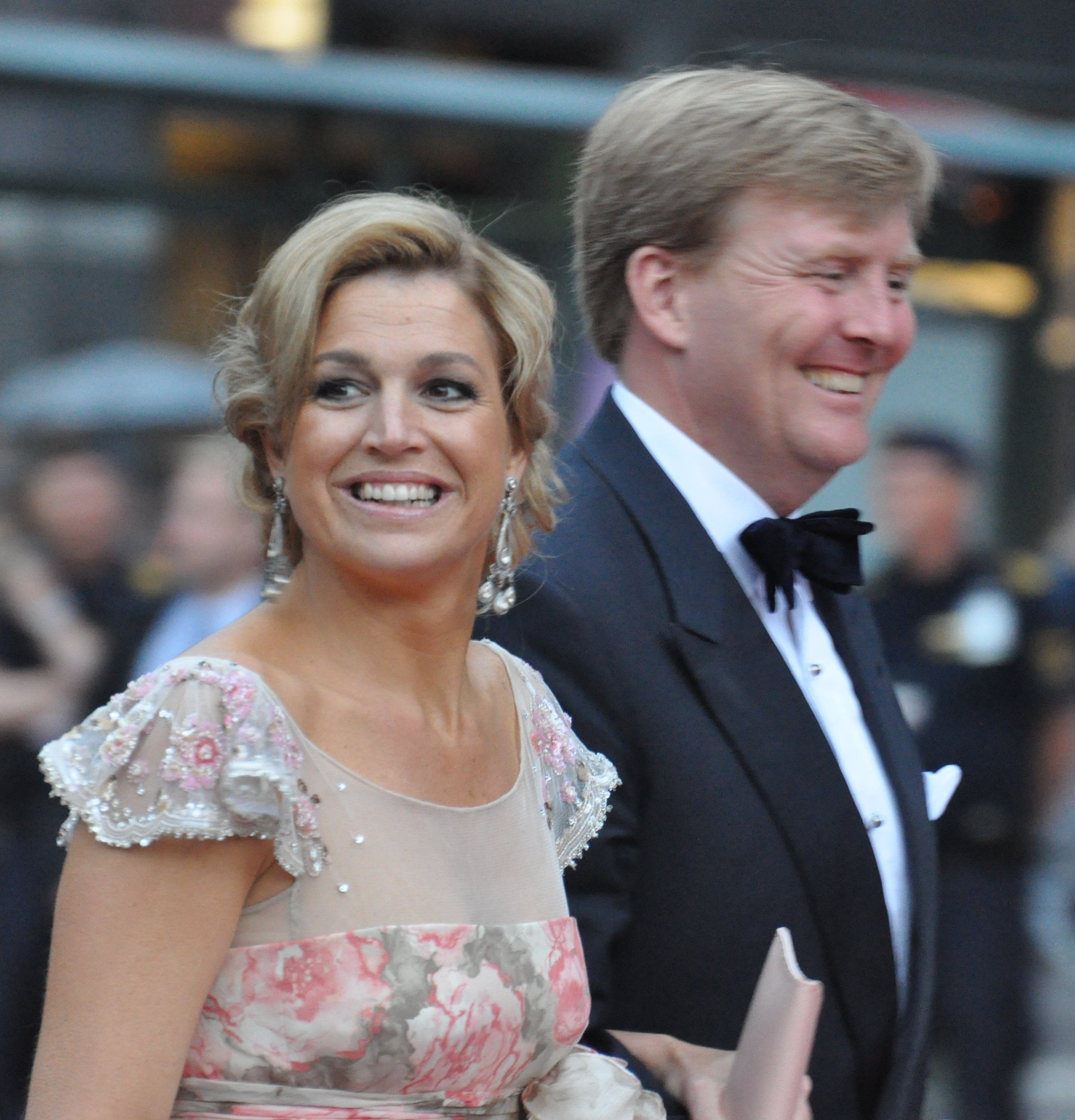 Wedding of Victoria, Crown Princess of Sweden, and Daniel Westling; Arrival of members for the Government and Swedish and foreign guests of hounour to the Riksdag's Gala Performance at Konserthuset: Princess Máxima of the Netherlands and her husband, crown Prince Willem-Alexander